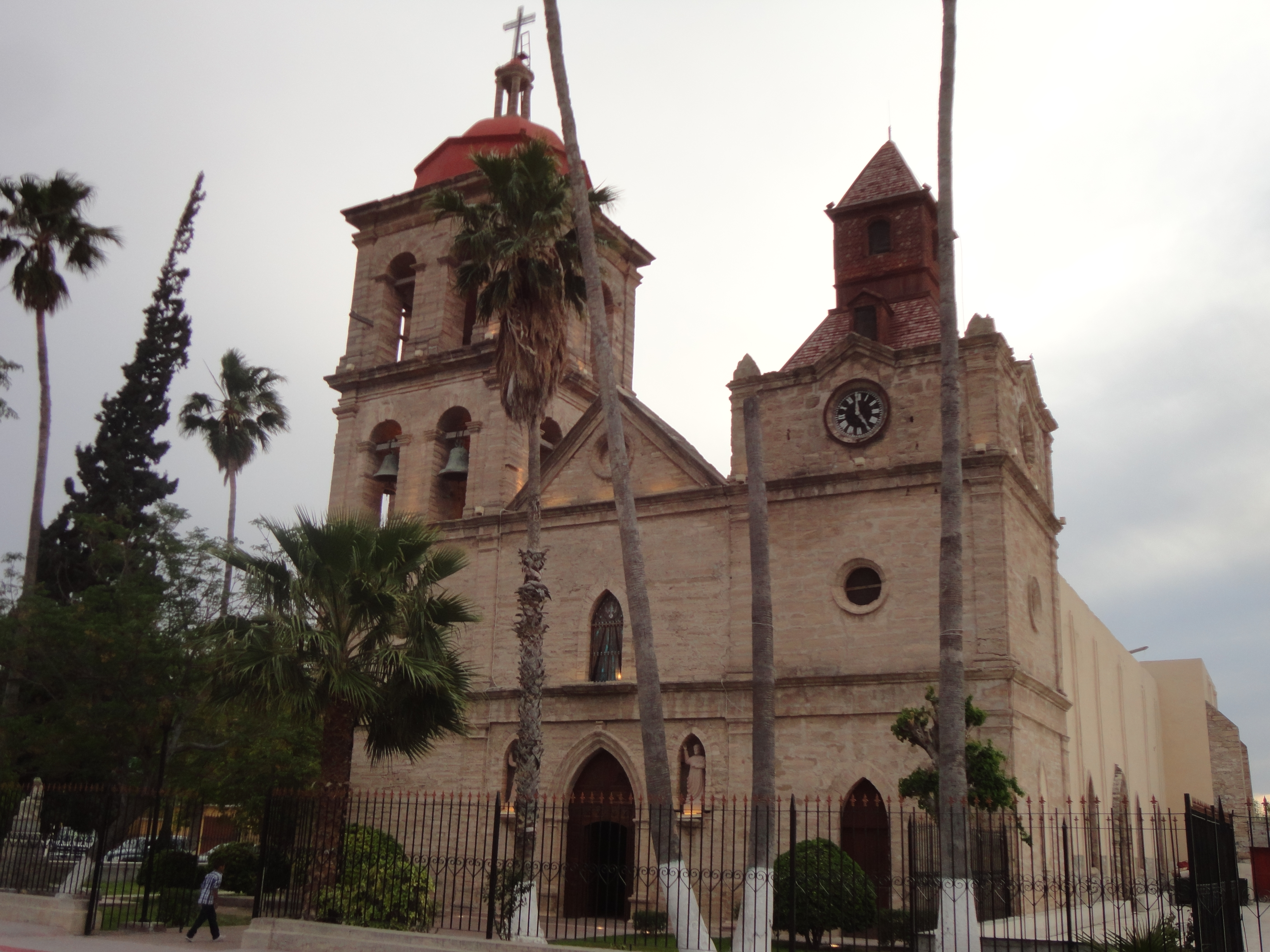 Saint Joseph Parish - Cuatro Cienegas, Coahuila, Mexico.